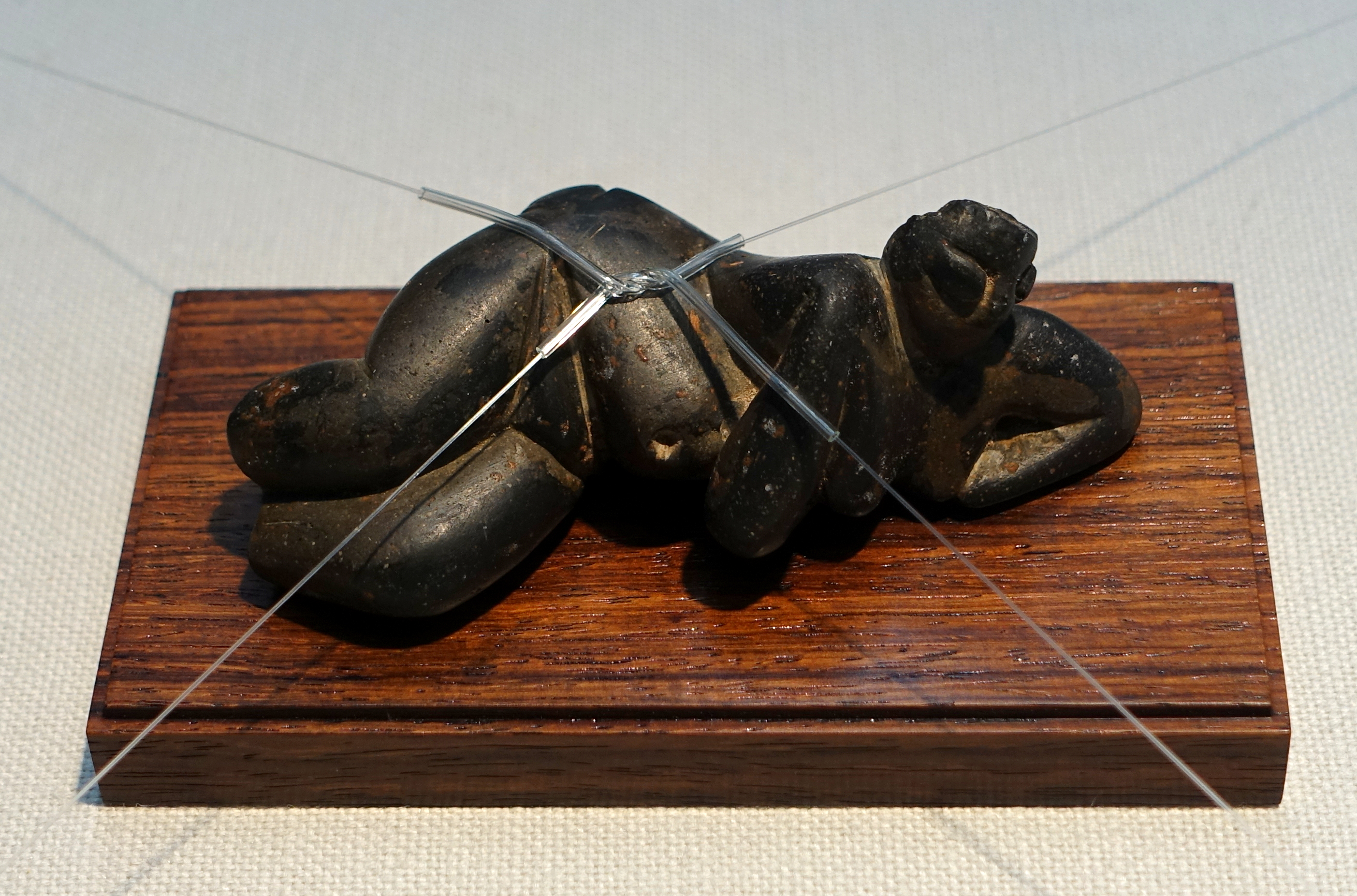 Exhibit in the Matsuoka Museum of Art - 5 Chome-12-6 Shirokanedai, Minato, Tokyo 108-0071, Japan.